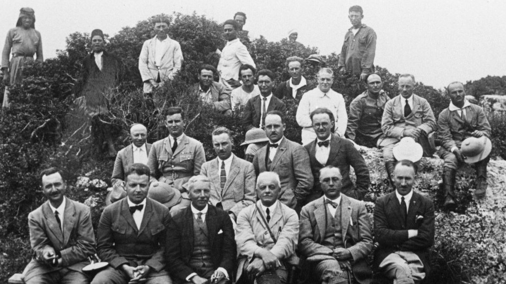 The League of Nations malaria commission in Palestine, 1925. Israel Kligler is the bald man in the second row, far left. This identifies the people in the front row l-r: N.H. Swellengrebel (However, I think he is the one second row on the right (see annotation)) Ludwik Anigstein Col. S.P. James Bernhard Nocht Donato Ottolenghi S. Darling (if he is here, it is likely Norman Lothian is also in this image. The two were killed in a car accident in Beirut in the same year this image was taken (1925) Samuel Taylor Darling) Second row: Israel Jacob Kligler